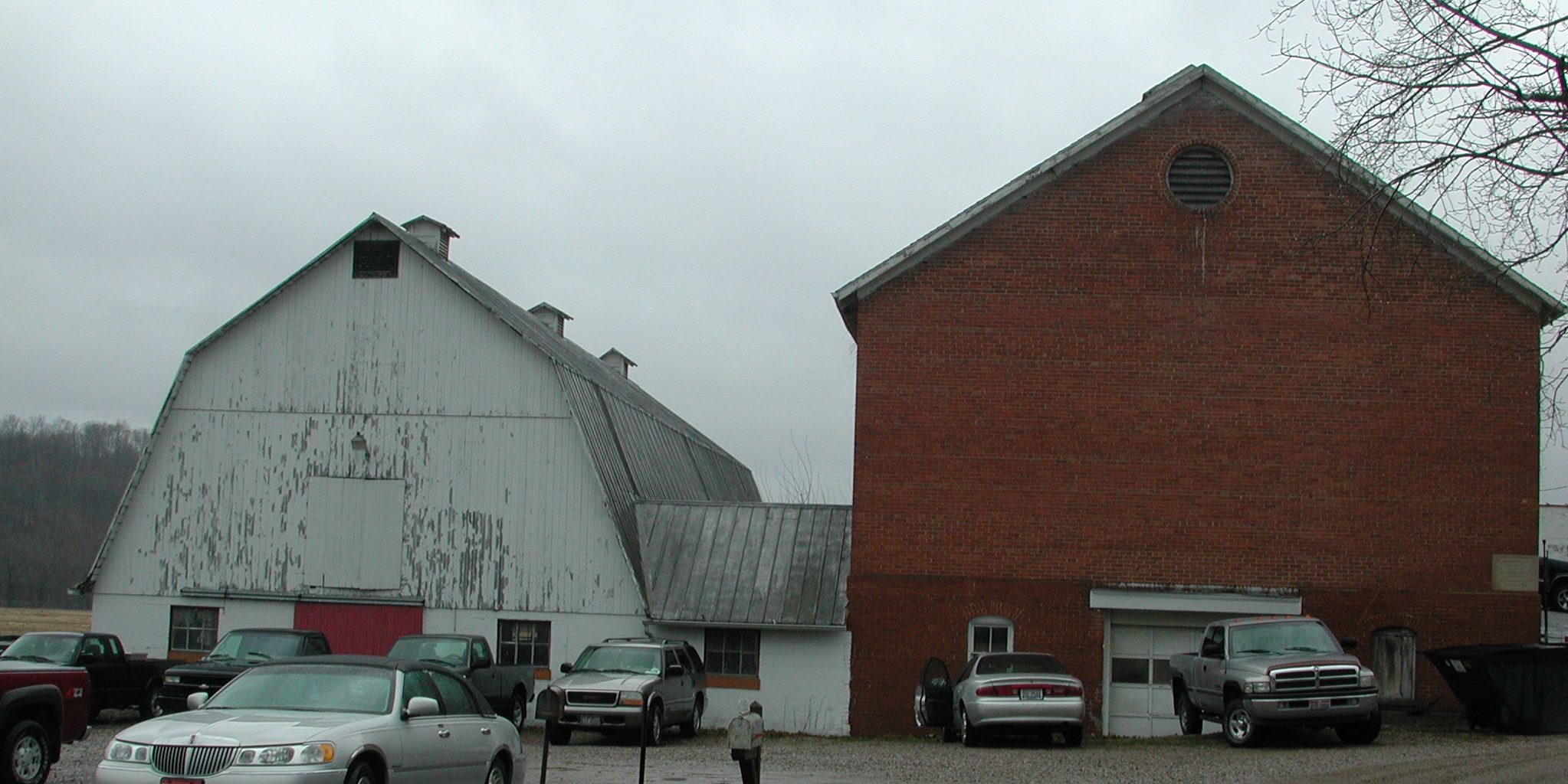 Main barns of the Athens County Infirmary